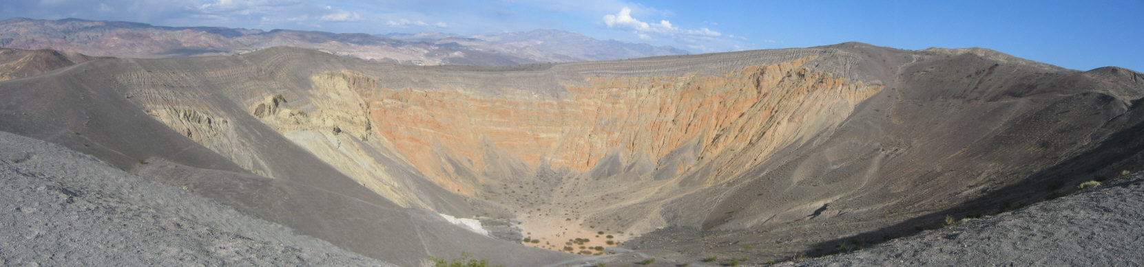 Ubehebe Crater, Death Valley, California